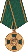 Russian Federation Medal For The Development Of Agriculture. Awarded to citizens for achievements in the field of agriculture and major contributions to the development of the agro-industrial complex, training, research and other activities aimed at improving the efficiency of agricultural production.